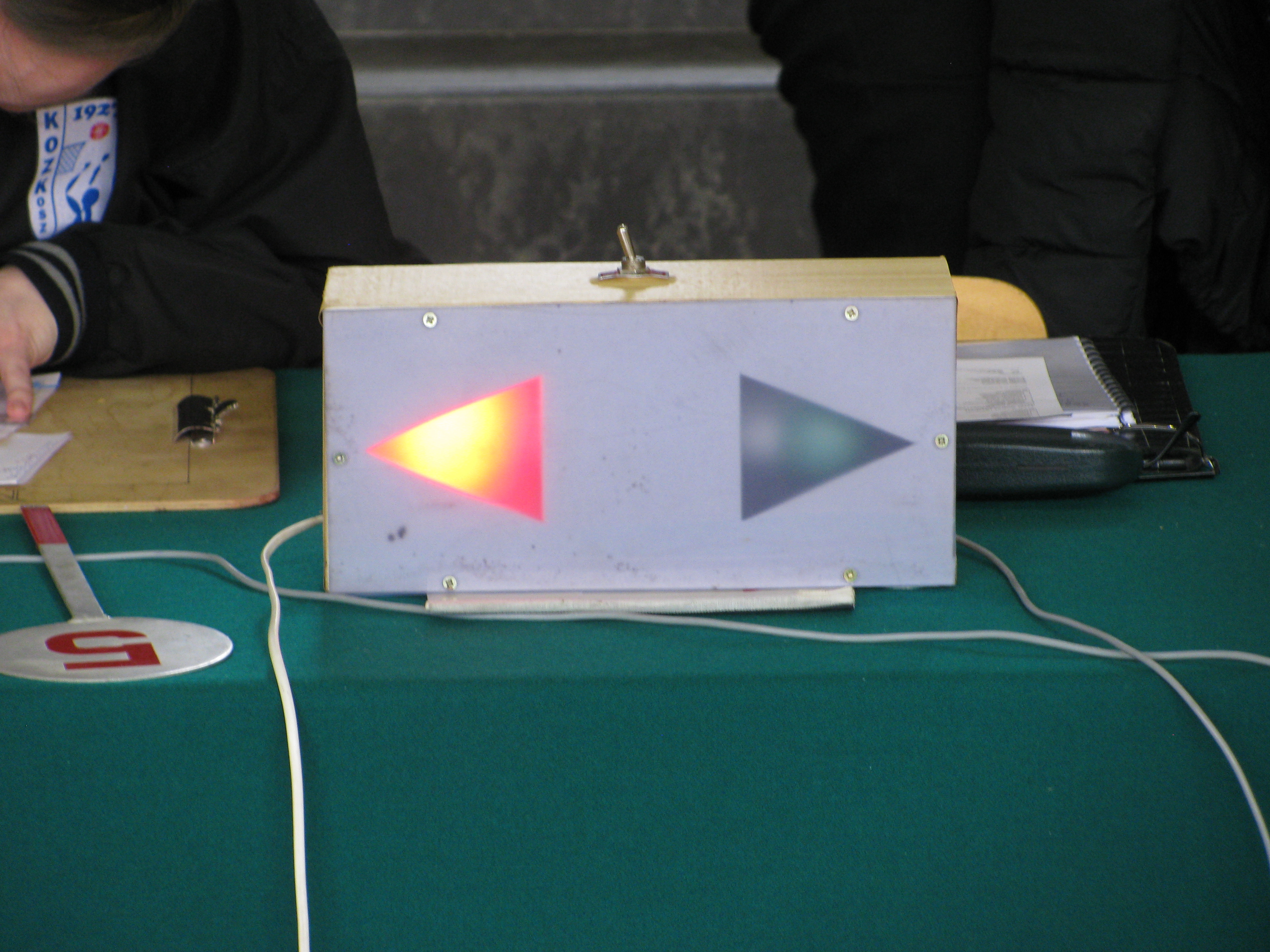 Possession arrow (basketball) - electric version; selfmade. Wadowice, Poland.